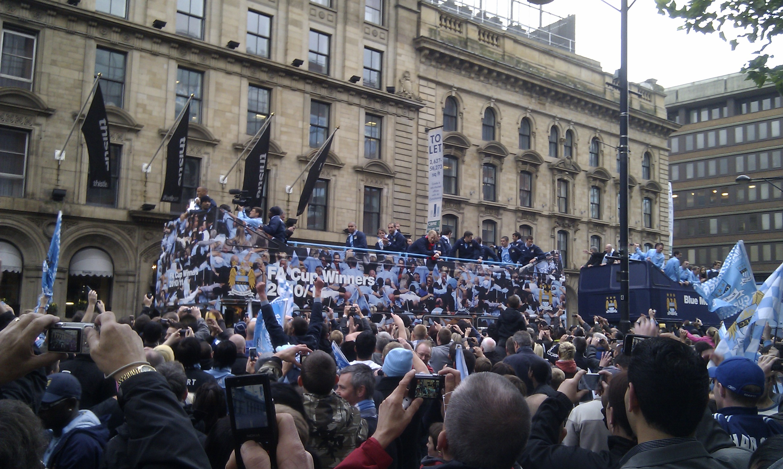 Manchester City parade through the streets of Manchester to celebrate their FA Cup win